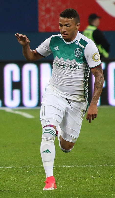 Ismael Silva Lima with FC Akhmat Grozny in a game against FC Zenit St. Petersburg